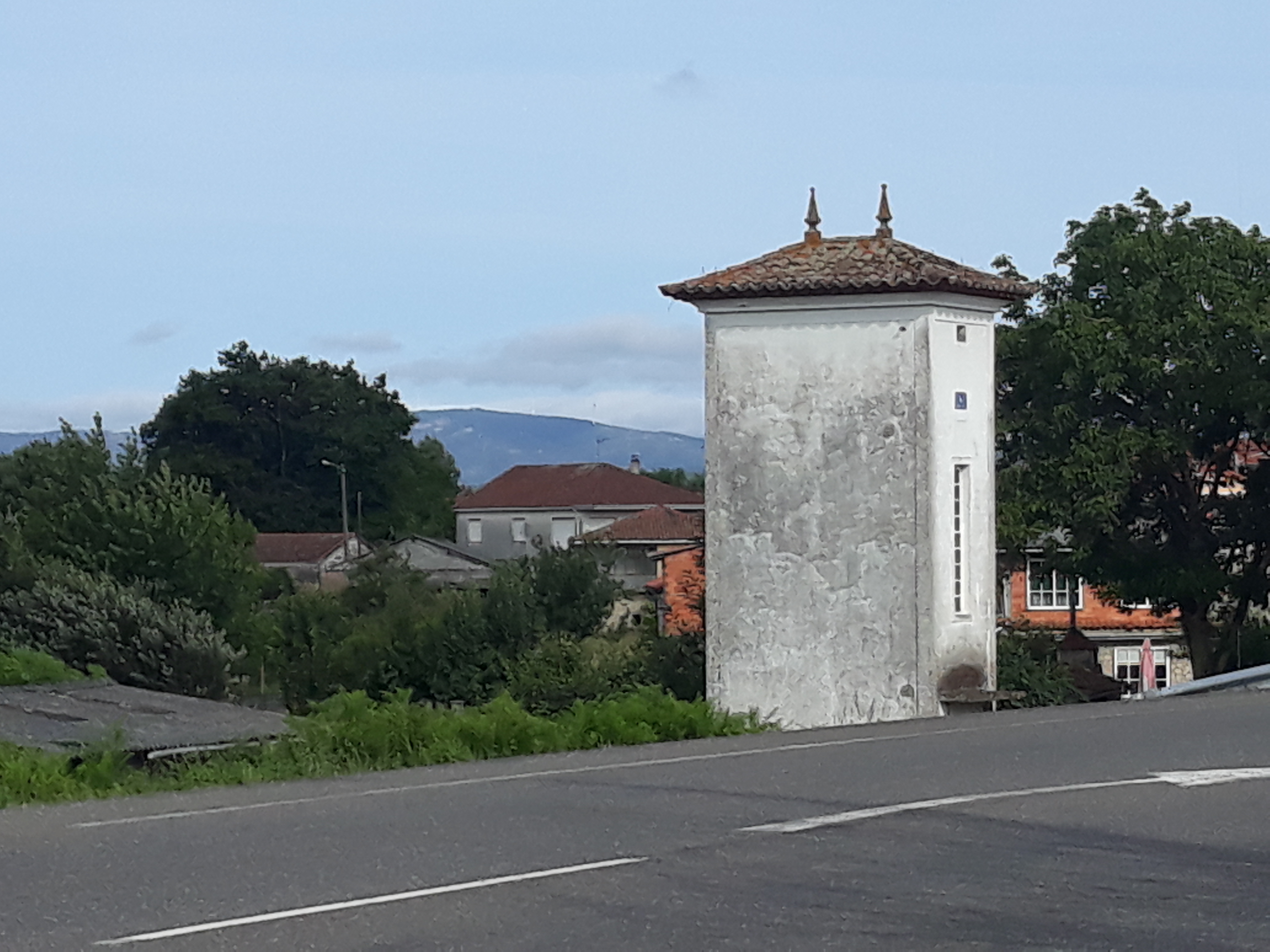 Electrical substation beside the N-525 highway in Bouzas, Ourense province, Galicia, Spain.